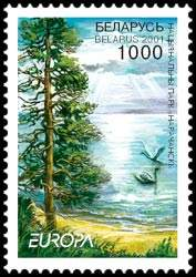 Stamp of Belarus